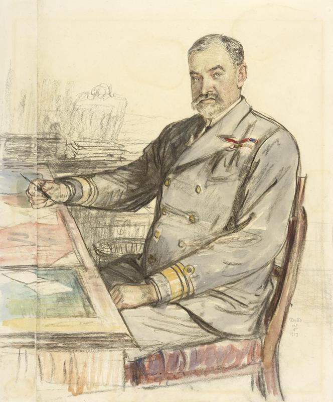 Vice-admiral Sir Henry Francis Oliver, Kcb, Mvo image: a portrait of the bearded Vice Admiral Sir Henry Oliver in Royal Navy uniform, sitting at a desk strewn with paperwork and holding a pen in his right hand.